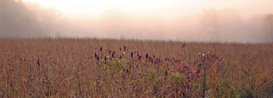 prairie in Effigy Mounds National Monument, Iowa, USA